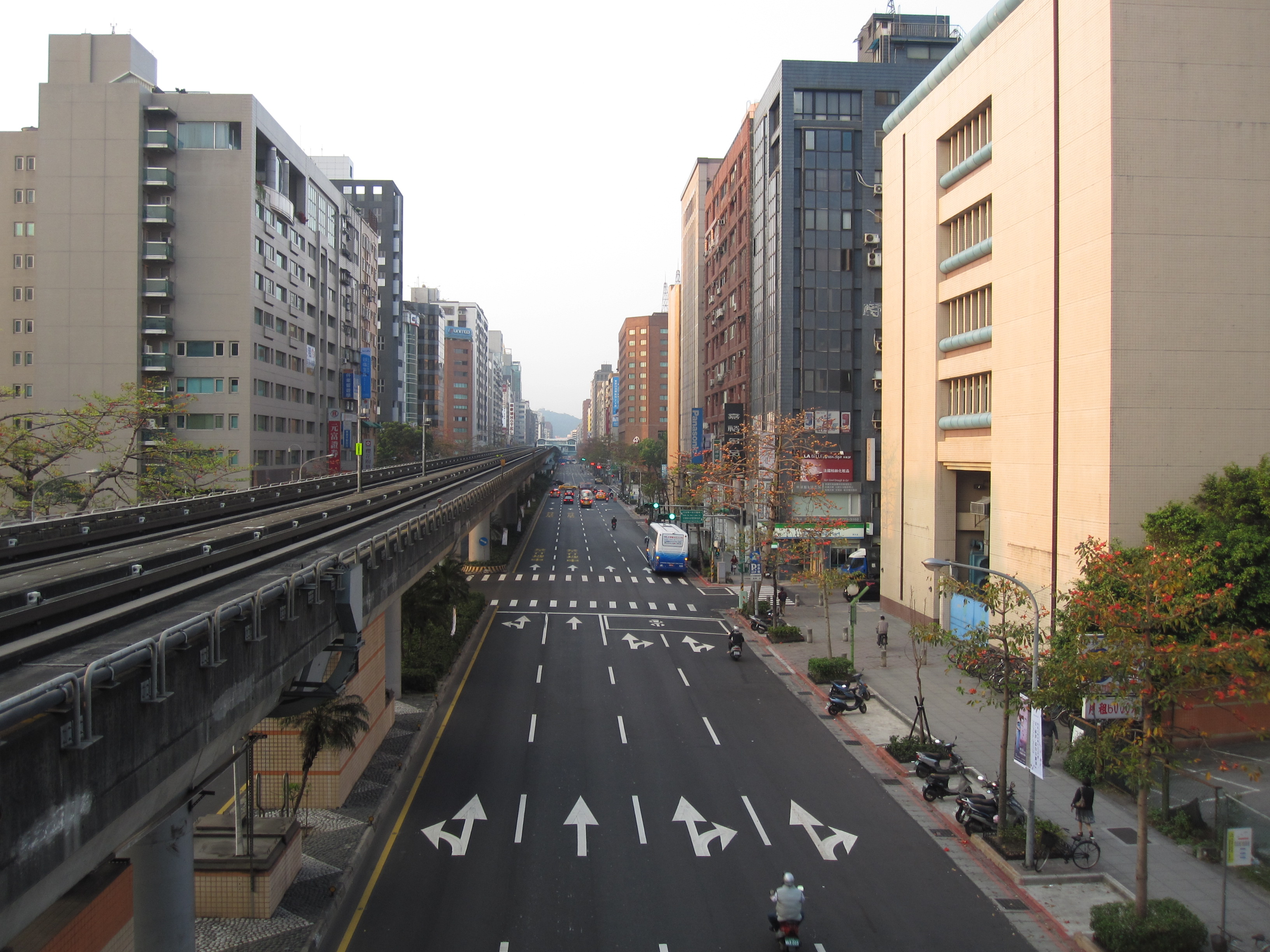 A part of Fuxing S. Road between the intersections of Renai Road and Zhongxiao E. Road from the view of Zhongxiao Fuxing Station.中文（台灣）: 由臺北捷運忠孝復興站月台拍攝的一段復興南路（介於仁愛路口以及忠孝東路口之間）。